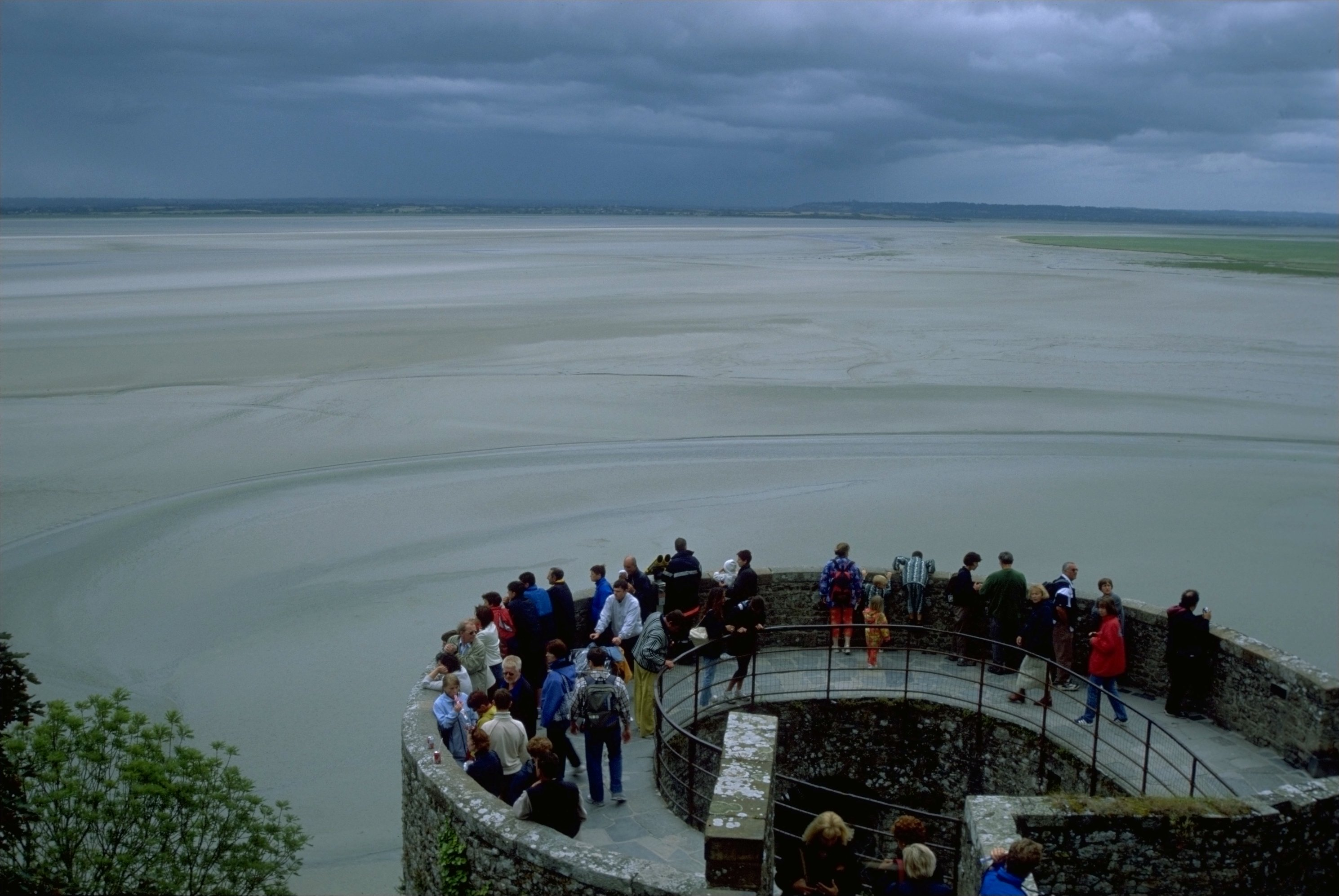 View from Mont Saint Michel at low tide, France Photo was taken using the following technique: Film: Fuji Velvia Lens: 4/70-210 Filter: none Body: Minolta 7 Support: Manfrotto 190B Image with Information in English Bild mit Informationen auf Deutsch